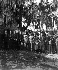 Dimitrios Kakavos in Vasilika